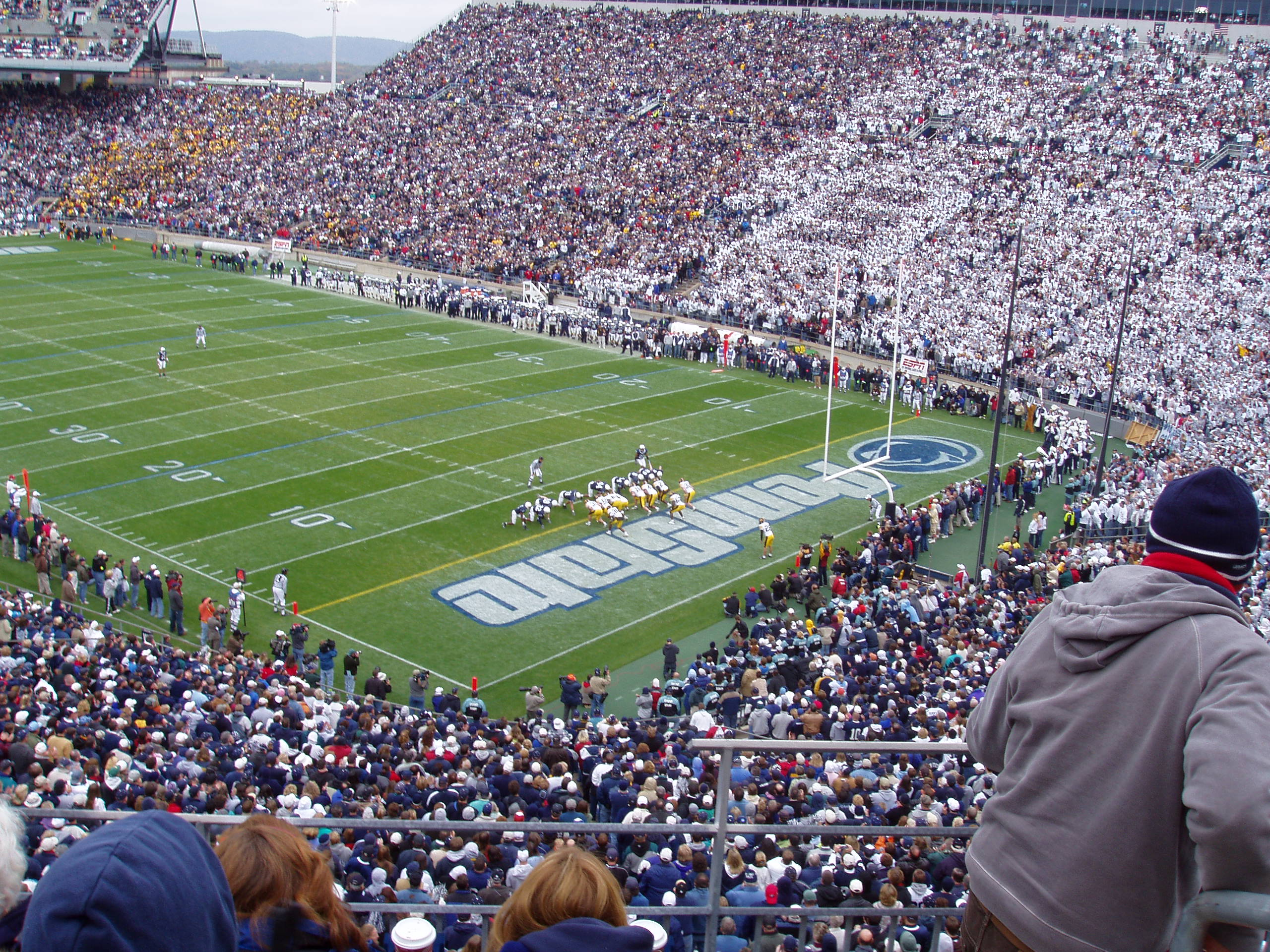 Before PSU caused an Iowa Safety. Taken by myself Michael D. Steinmetz